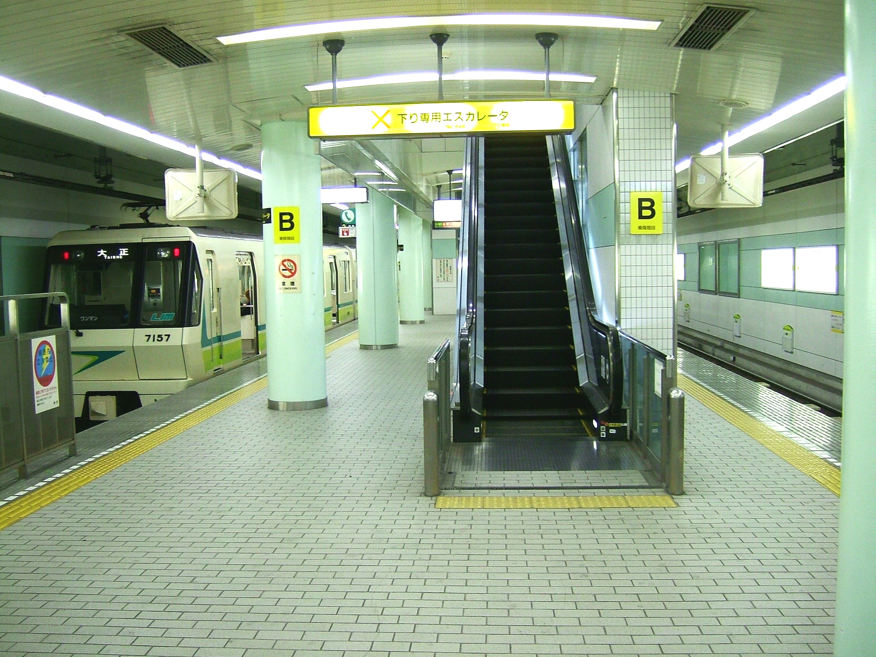 The platform at Kadomaminami Station on the Nagahori Tsurumi-ryokuchi Line